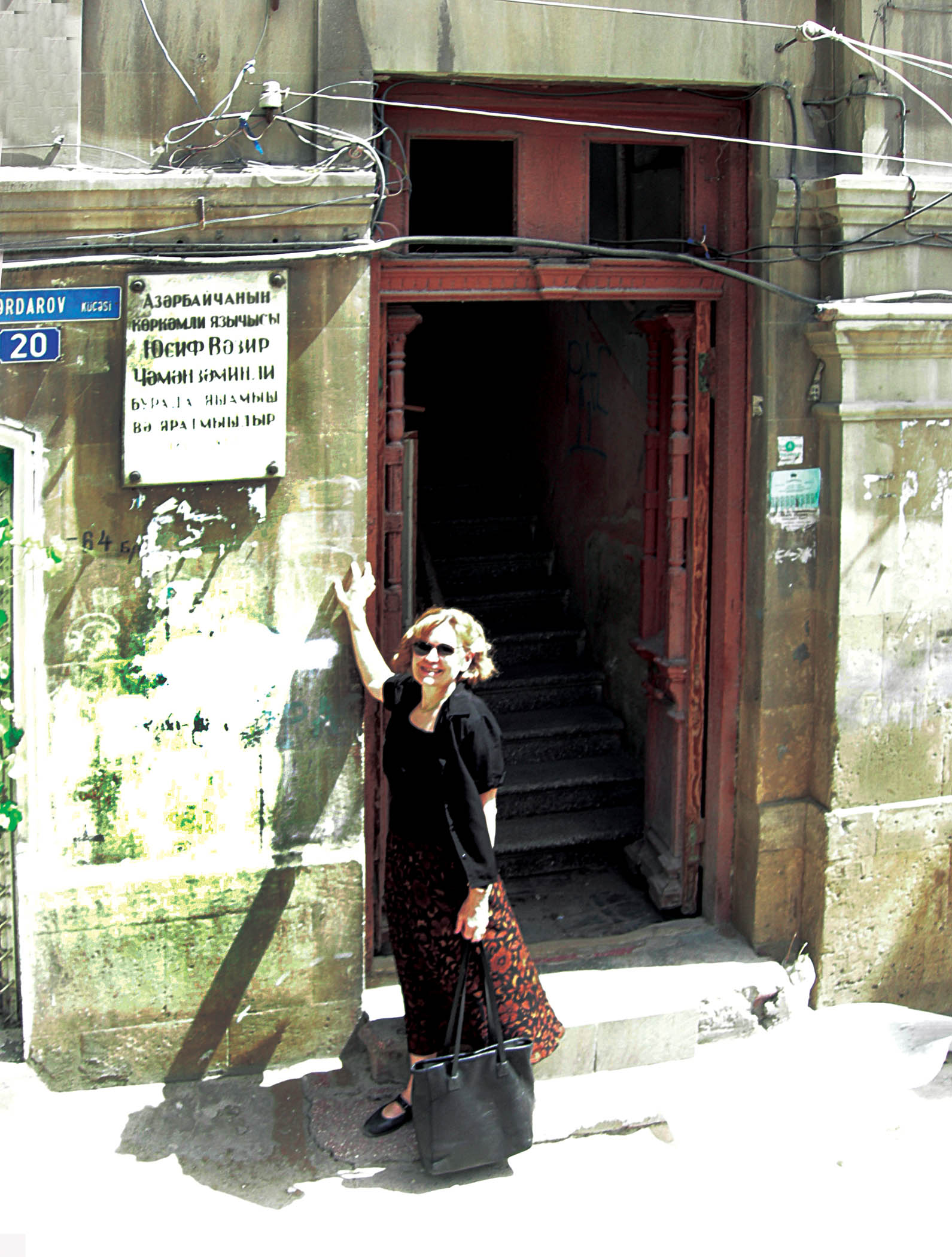 Betty Blair, researcher of the life about Yusif Vazir Chamanzaminli, at the last apartment in Baku, where Azerbaijani writer Yusif Vazir Chamanzaminli and his family lived before he was arrested and sentenced to eight years in Stalin's GULAG in 1940. Chamanzaminli's apartment was located on 20 Sardarov Street.